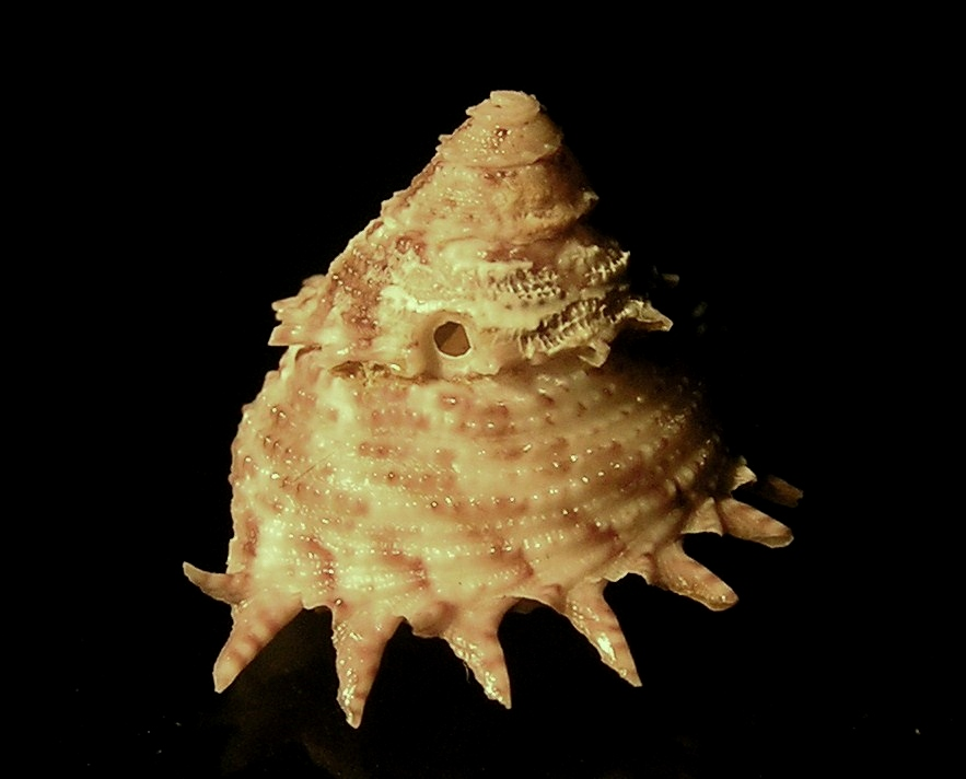 Bolma persica (Dall, 1907) (synonym: Bolma erectospinosa (Habe & Okutani, 1980) , a turban snail from the family Turbinidae; Philippines